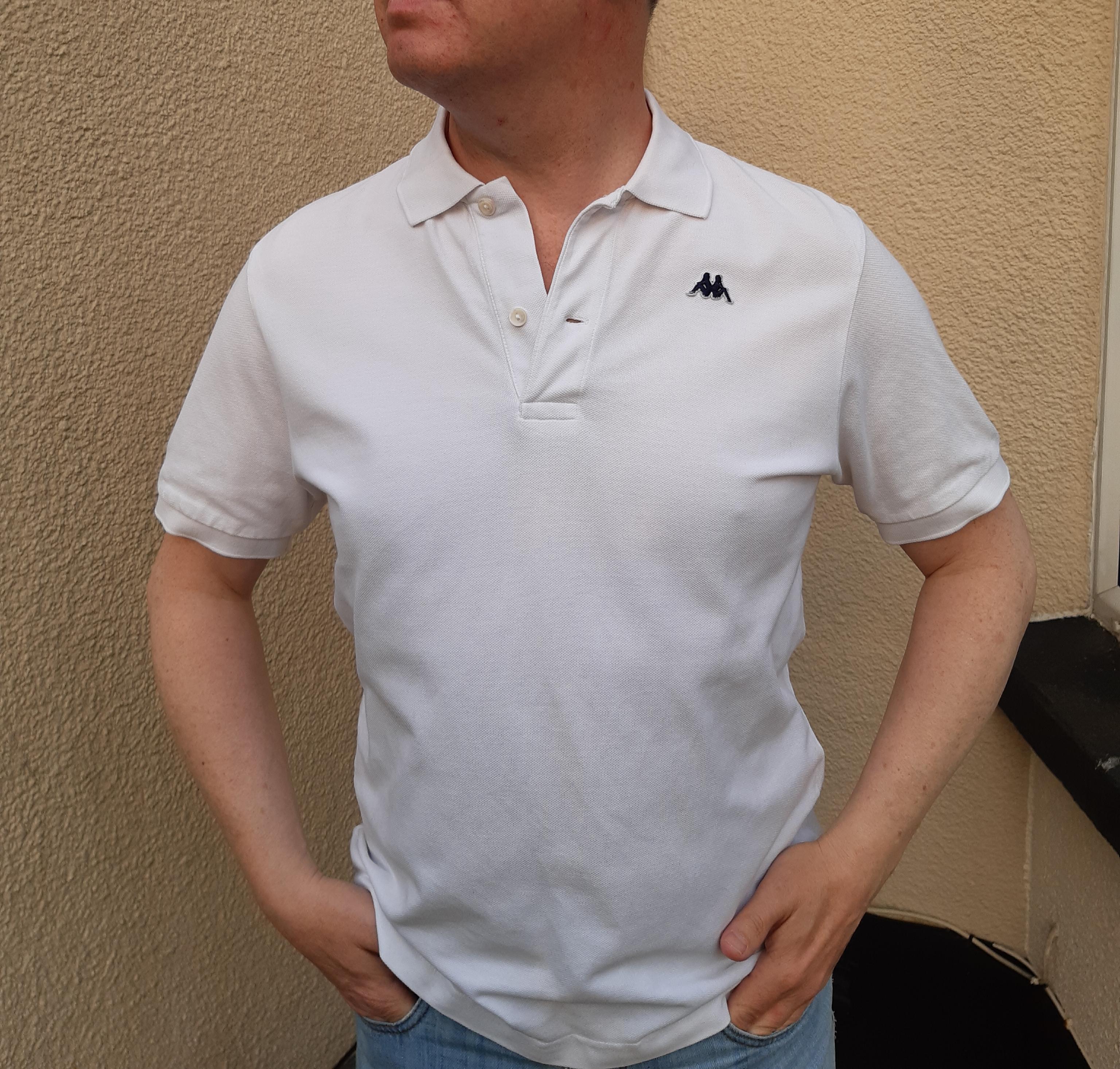 polo shirt (Kappa logo)